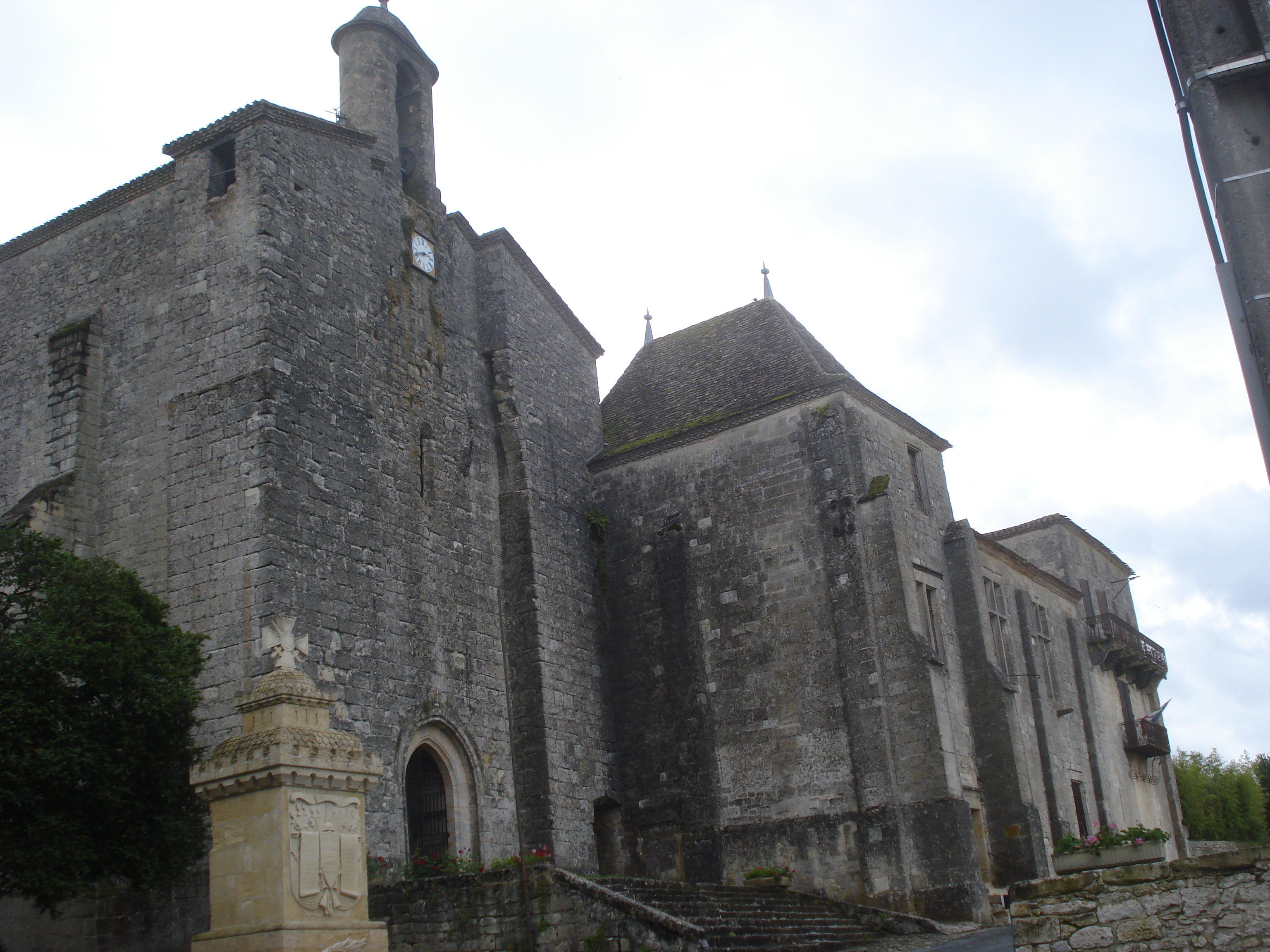 Saint-Ferme (Gironde, Fr) church et abbey